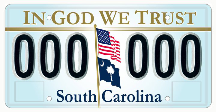 'In God We Trust' optional license plate designed by Troy Wingard for the South Carolina Department of Public Safety in 2002